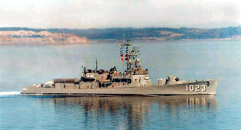 The U.S. Navy destroyer escort USS Evans (DE-1023) cruising in Puget Sound, Washington (USA), in 1970.